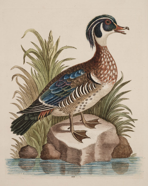 Engraving The summer duck of Catesby (now Aix sponsa)